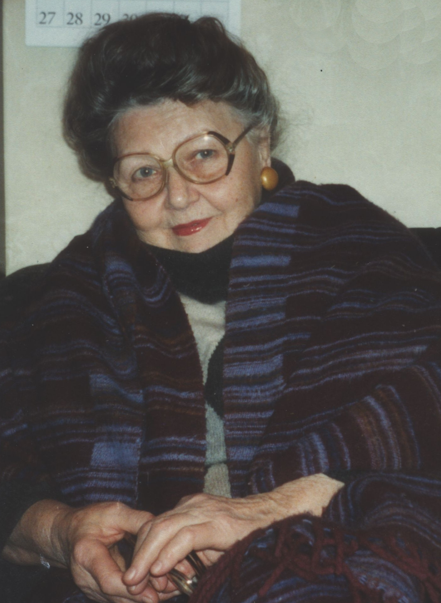 Tamara Petkevich, 1994, Izrael, in the house of Kira Teverovskaya